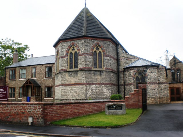 Roman Catholic church of SS Mary and Joseph, Union Street, Pocklington, East Riding of Yorkshire, England, seen from the northwest.